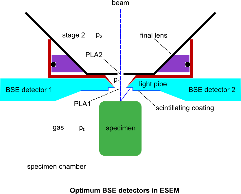 Optimum geometry backscattered electron detectors in ESEM. Clear plastic light pipes coated with scintillating material, abutting the PLA1 aperture for maximum collection efficiency, while gas flows from specimen chamber at pressure p0, to intermediate stage out at p1. Electron beam passes through vacuum at p2 above final lens and PLA2 before it strikes the specimen.